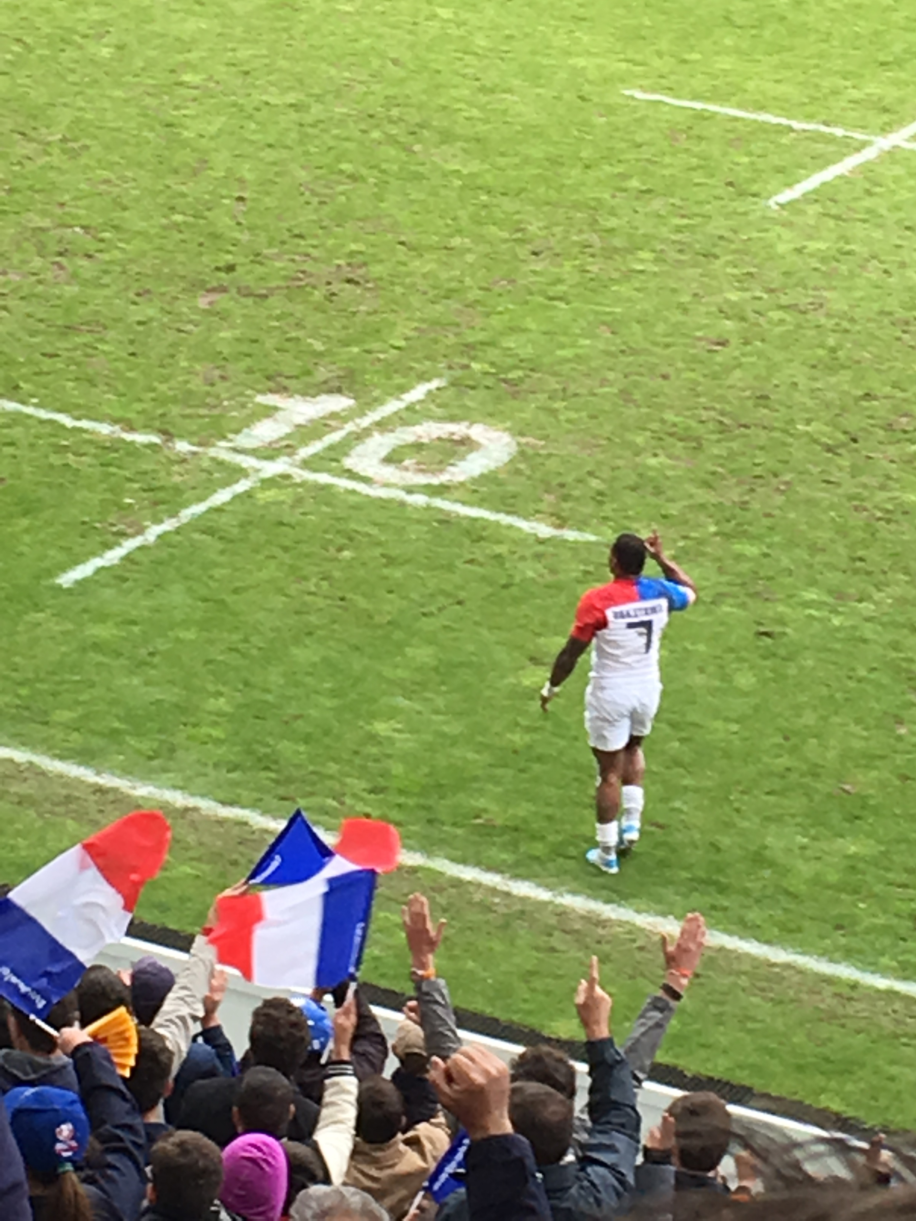 Virimi Vakatawa cheers with the audience at the Stade Jean Bouin in Paris during the France Rugby Sevens.